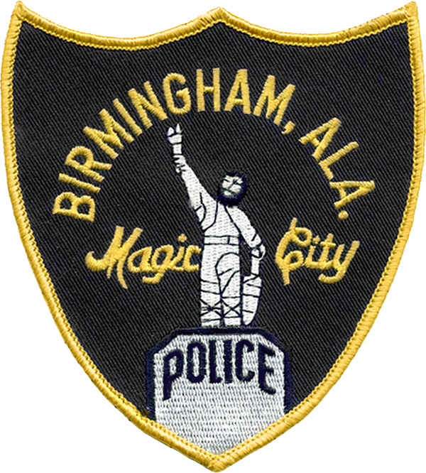 Image is similar, if not identical, to the Birmingham, Alabama Police Department patch. Made with Photoshop.